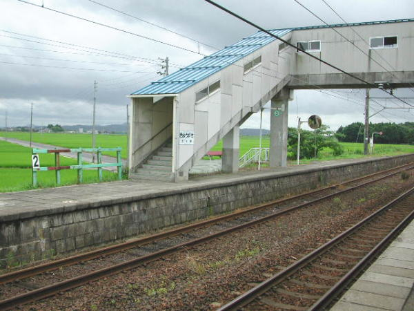 Kyōgase Station No.2 platform, Agano, Niigata, Japan